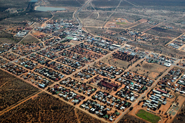 Close-up aerial photo of Gobabis, Namibia